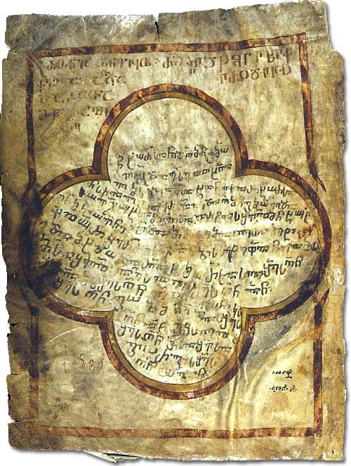 "A folio from the Georgian manuscript "Jruchi Gospels", 936-940 AD